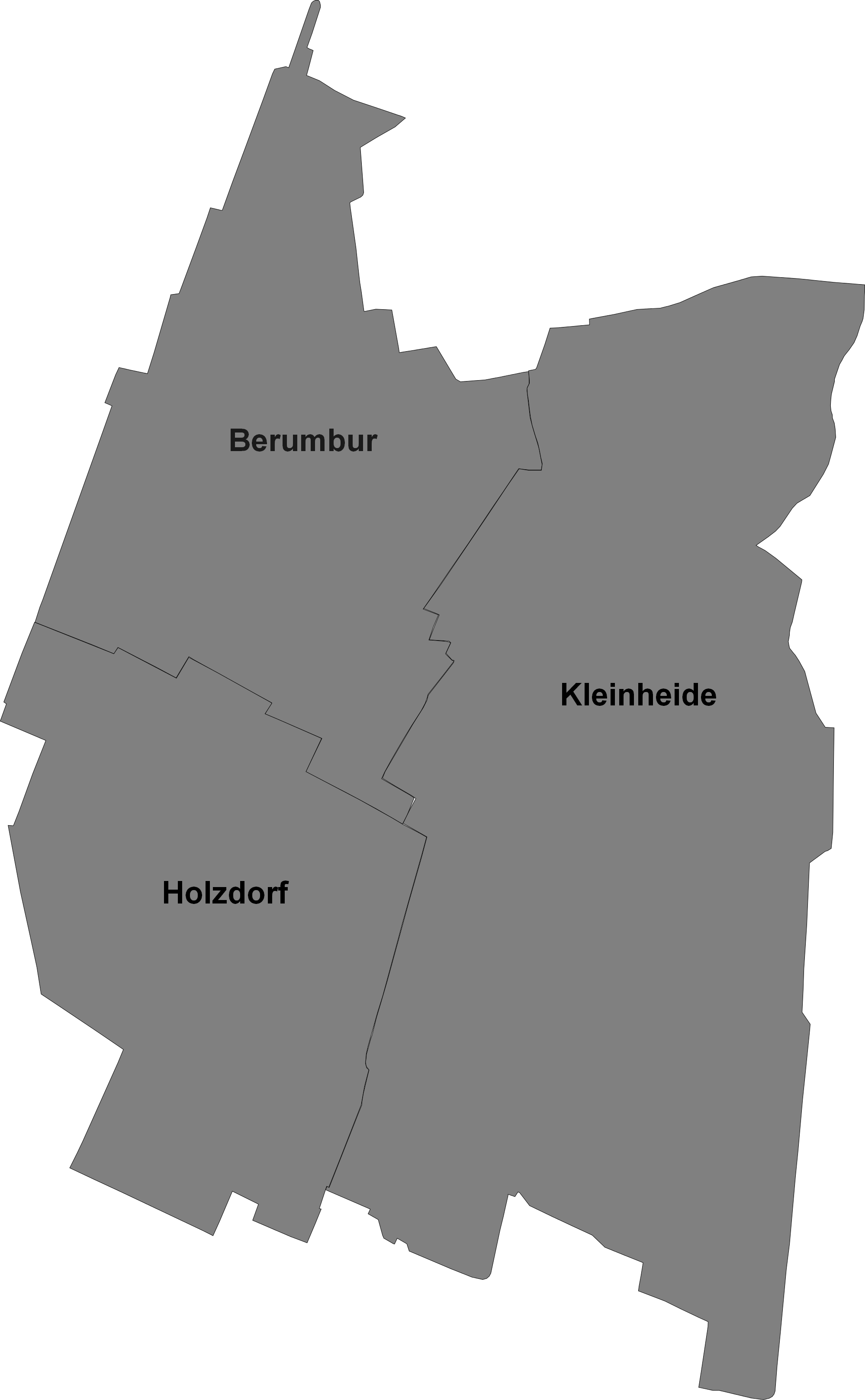 Berumbur districts.